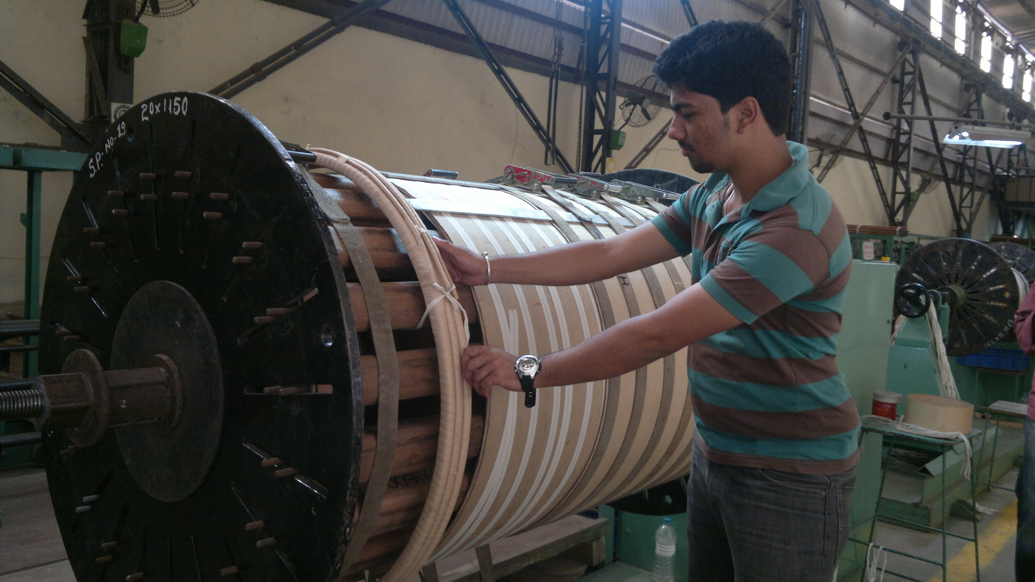 An engineer is inspection the winding machine, where the power transformer windings are made. This wooden roller is driven by a motor and has a counter to count the number of turns.